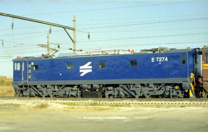 Class 7E4 no. E7274